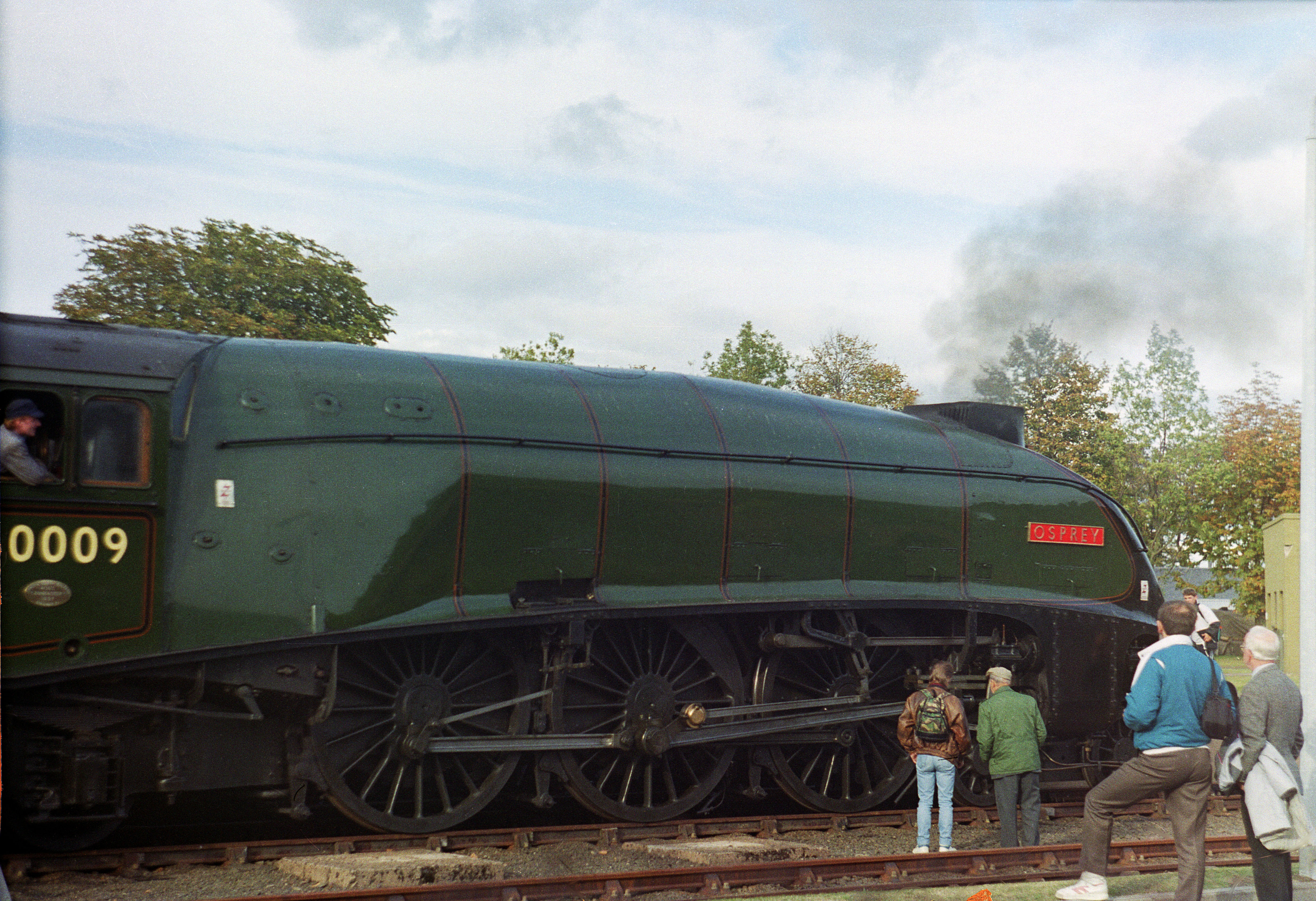 The steam locomotive 60009 Osprey photographed at or near the 1990 Leuchars Air Show. (According to information found elsewhere, this was- and is- known as 60009 Union of South Africa, and was only briefly renamed Osprey circa 1990 to 1991. Those sources also back up my vague recollection that its appearance as an exhibit here was associated with the Air Show itself).